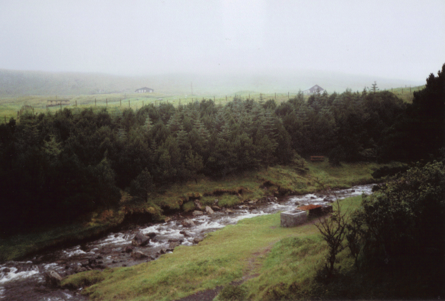 Streamlet "Rangá" in the forest near Trongisvágur